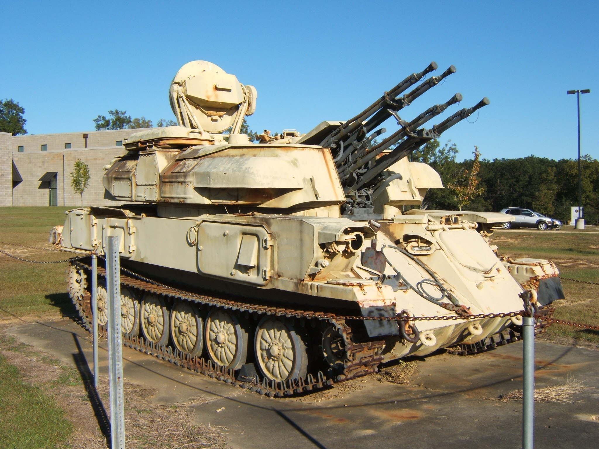 ZSU-23-4 "SHILKA" Self-propelled AA Gun